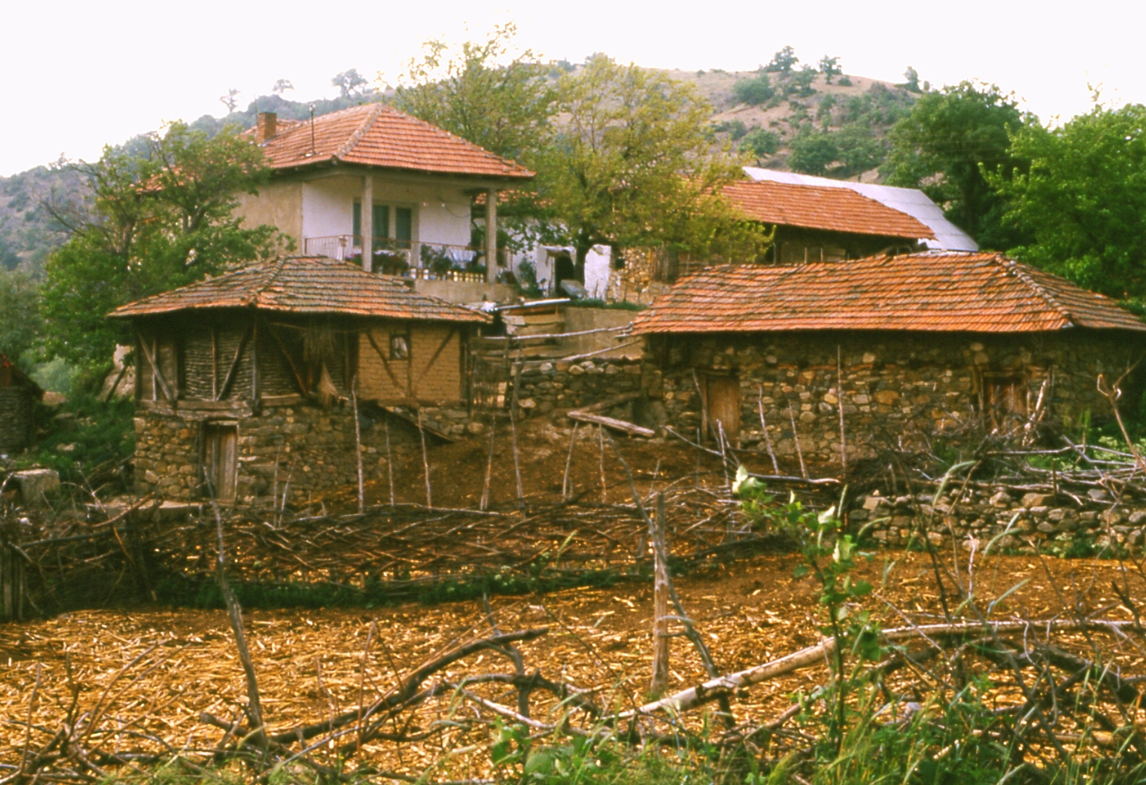 Farm in the Republic of Macedonia